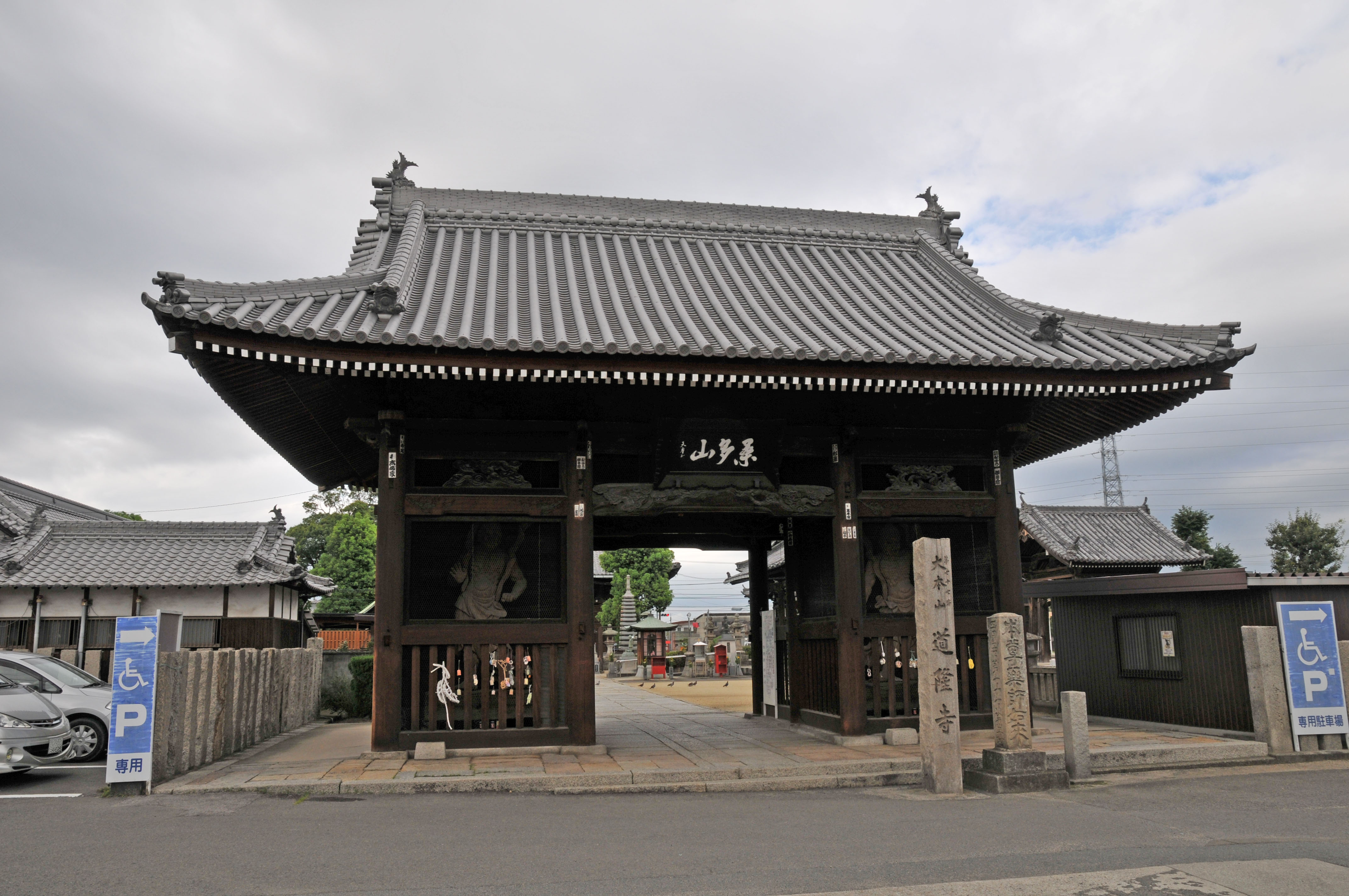 Temple gate, Dōryū-ji